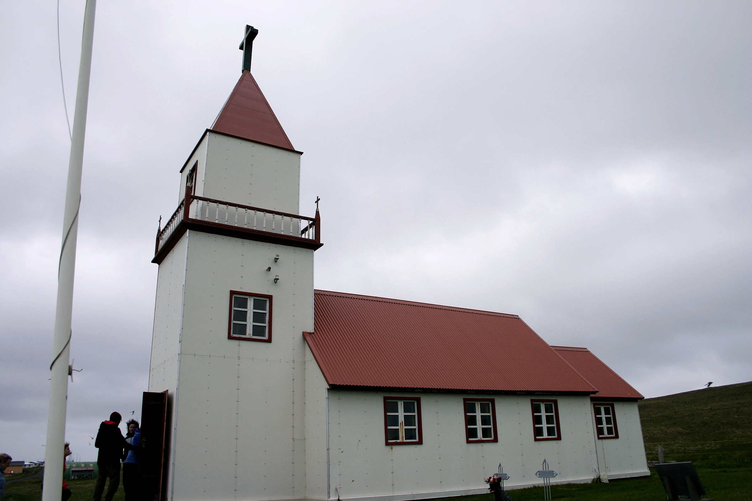 Church on Grimsey Island, Iceland.